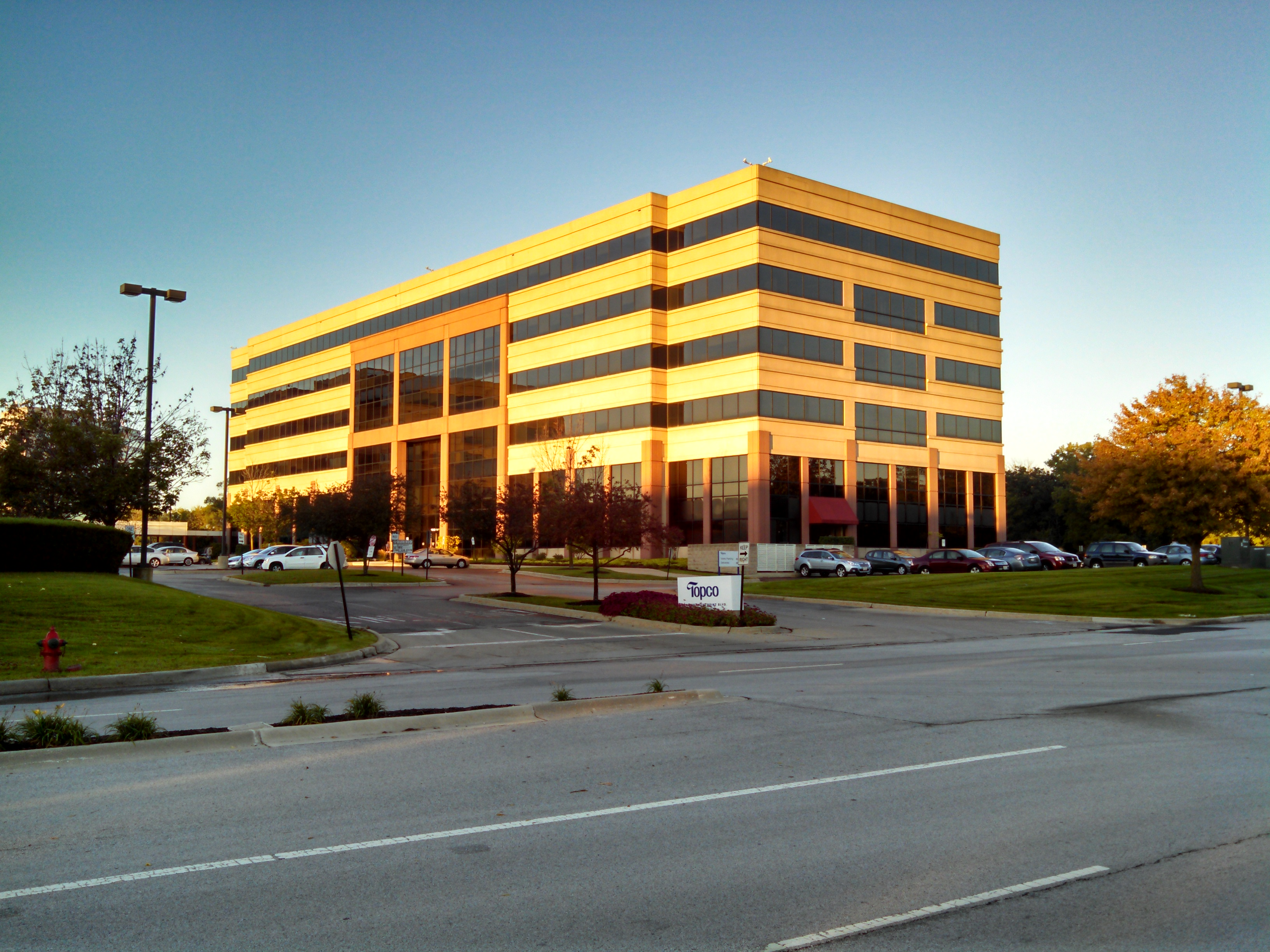 Main Offices of Topco Associates LLC in Elk Grove, Illinois